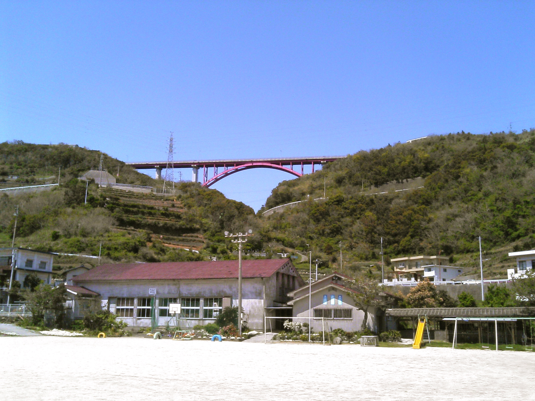 A view of the Horikiri Bridge (堀切大橋 Horikiri ōhashi) from the grounds of Shionashi Elementary School in Wikipedia:Ikata, Ehime, Japan